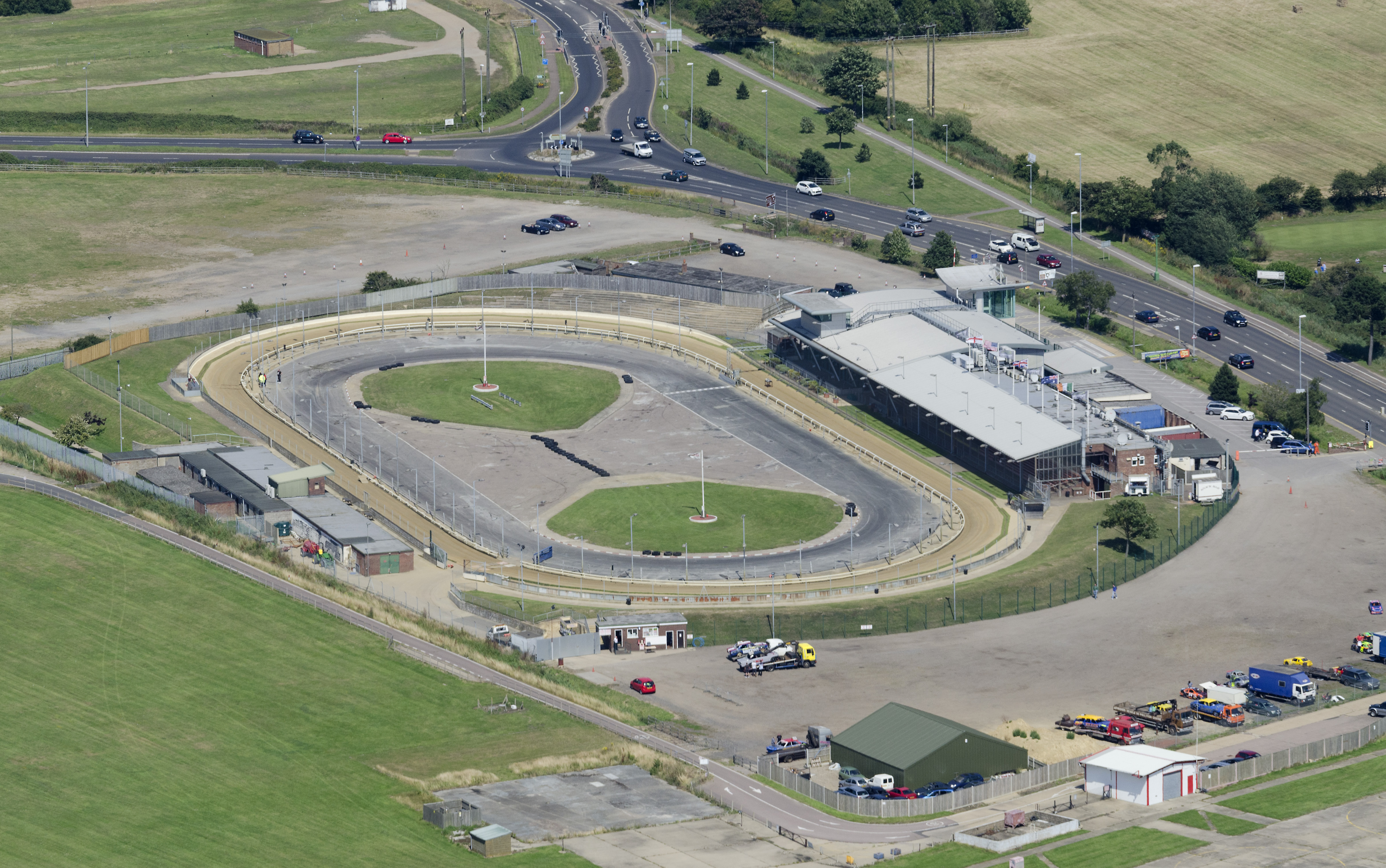 Greyhound and Motor Racing - Yarmouth Stadium Norfolk